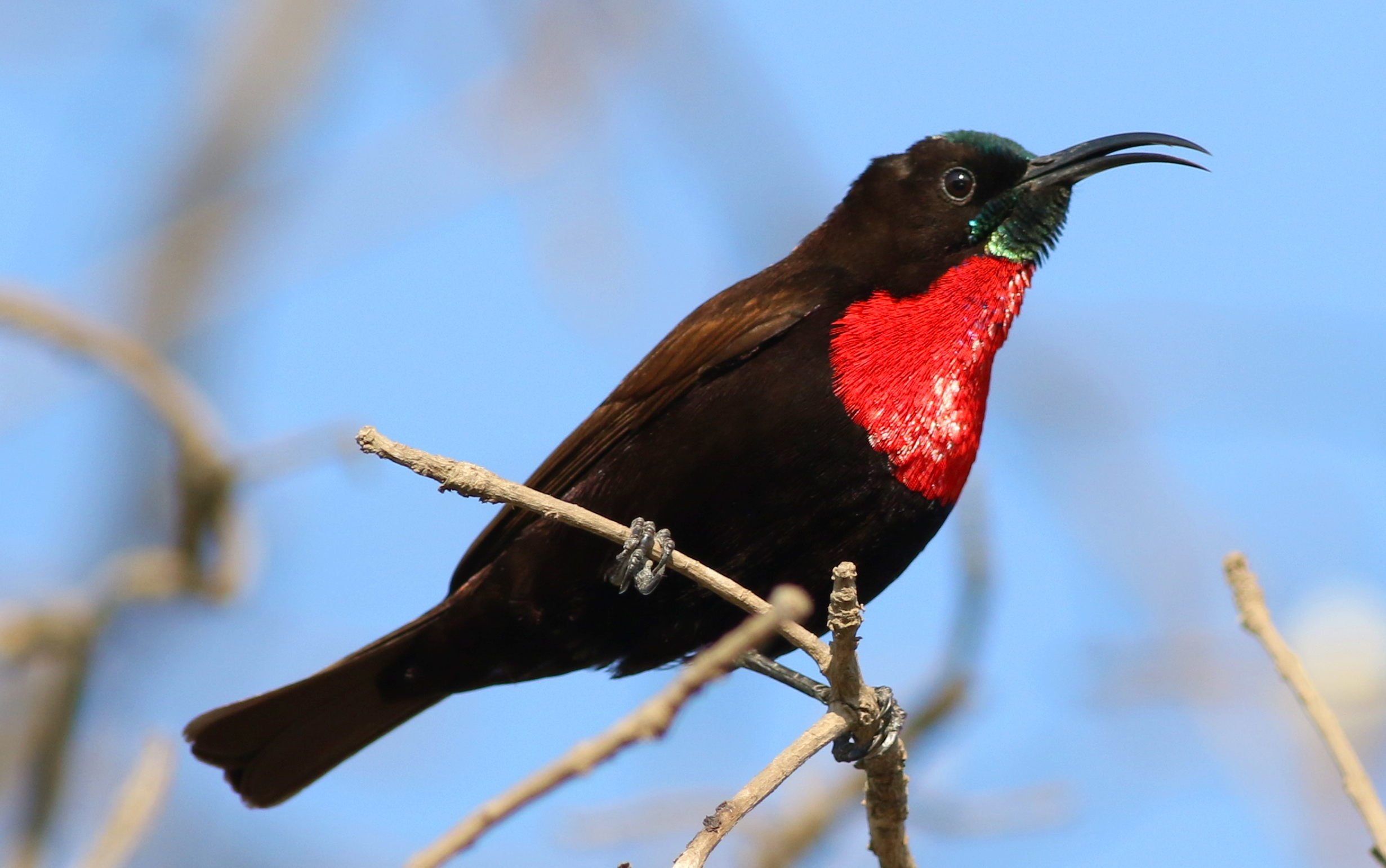 Scarlet-chested sunbird, Chalcomitra senegalensis, at Lake Chivero, Harare, Zimbabwe - male